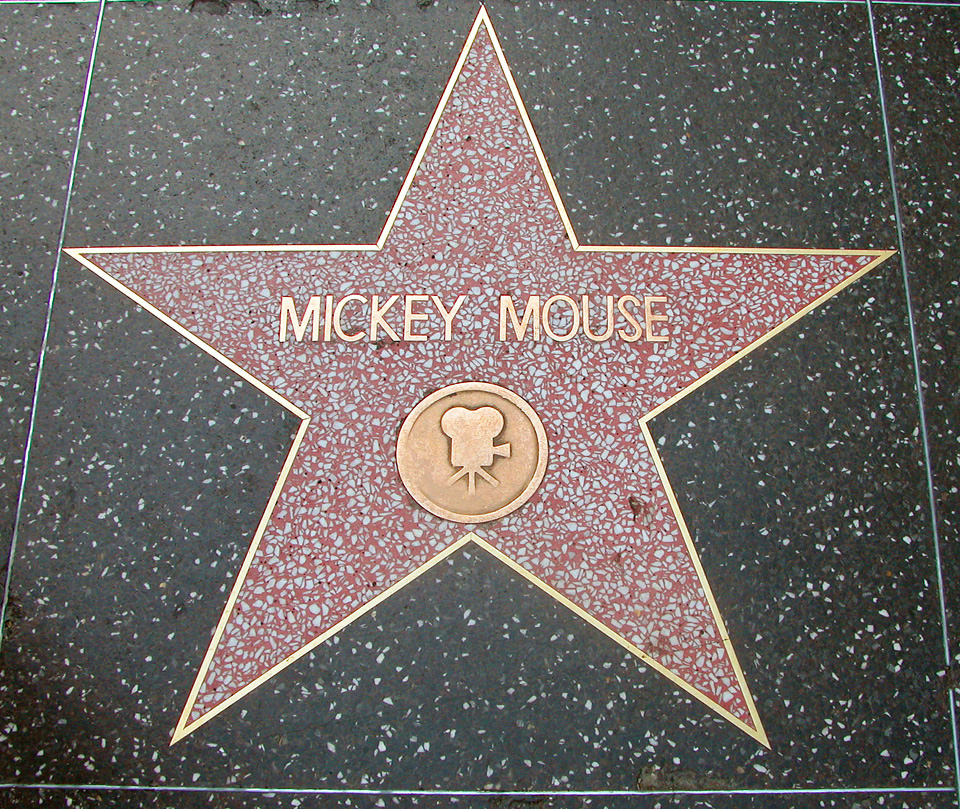 Mickey Mouse's star on the Hollywood Walk of Fame, Los Angeles (California)